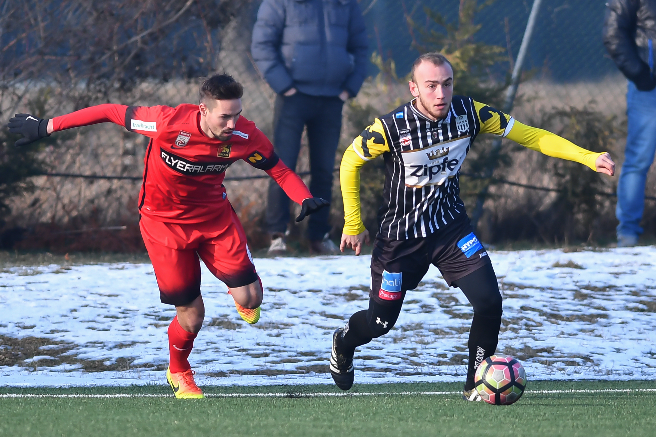 20/1/2017 Preparation match - FC Admira Wacker Moedling vs LASK Linz.